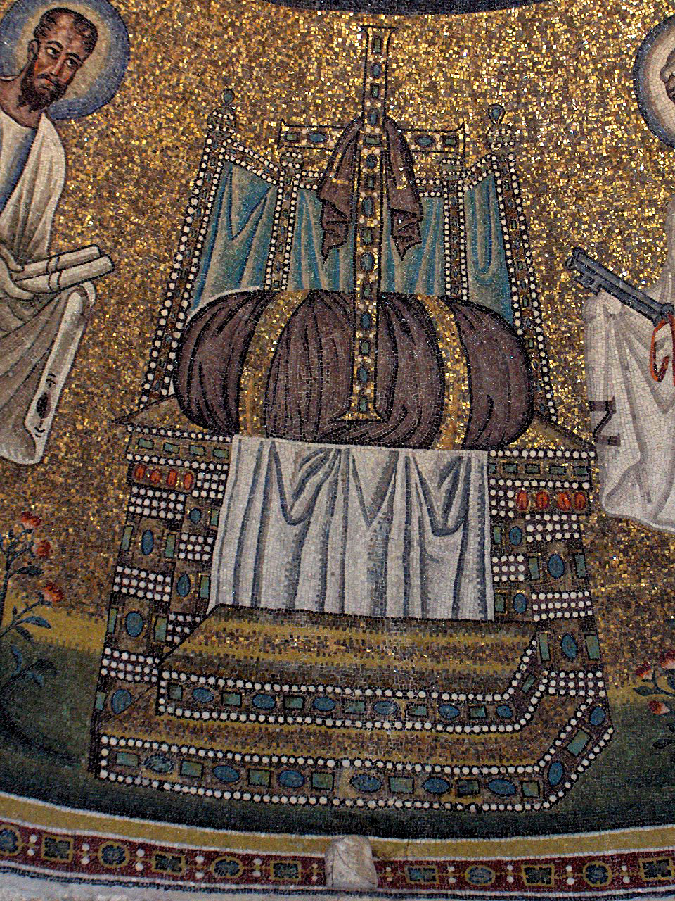 Throne with a jeweled crucifix resting on a purple cushion; Baptistry of the Arians, Ravenna, Italy